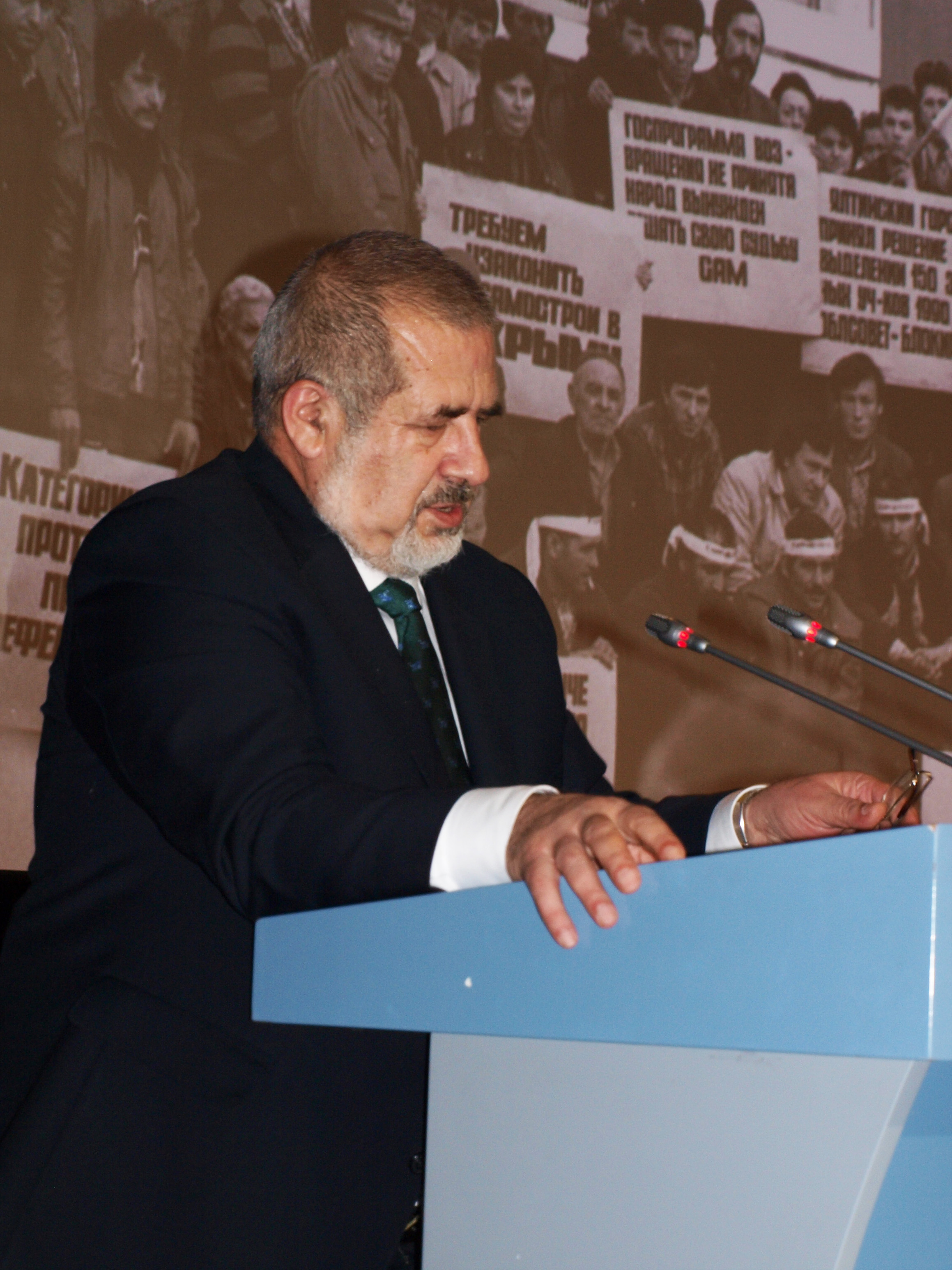 Refat Çubarov, Ukrainian politician and public figure, leader of the Crimean Tatar national movement in Ukraine and worldwide.